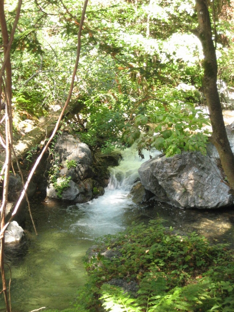 Image crash